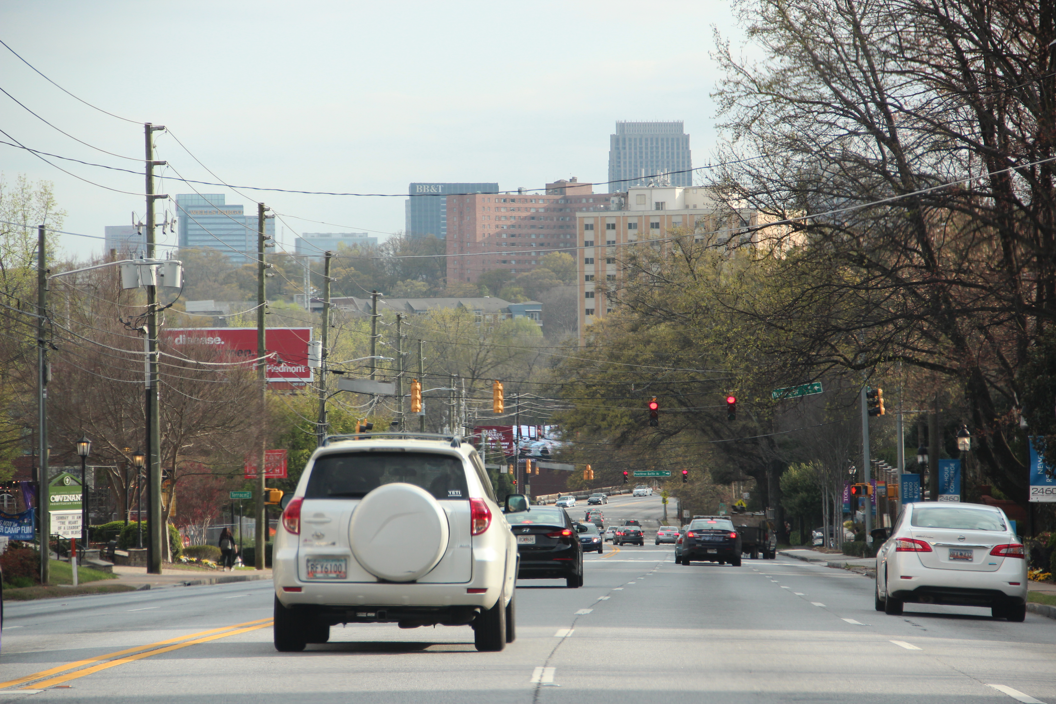 Peachtree Road (US Route 19), Atlanta